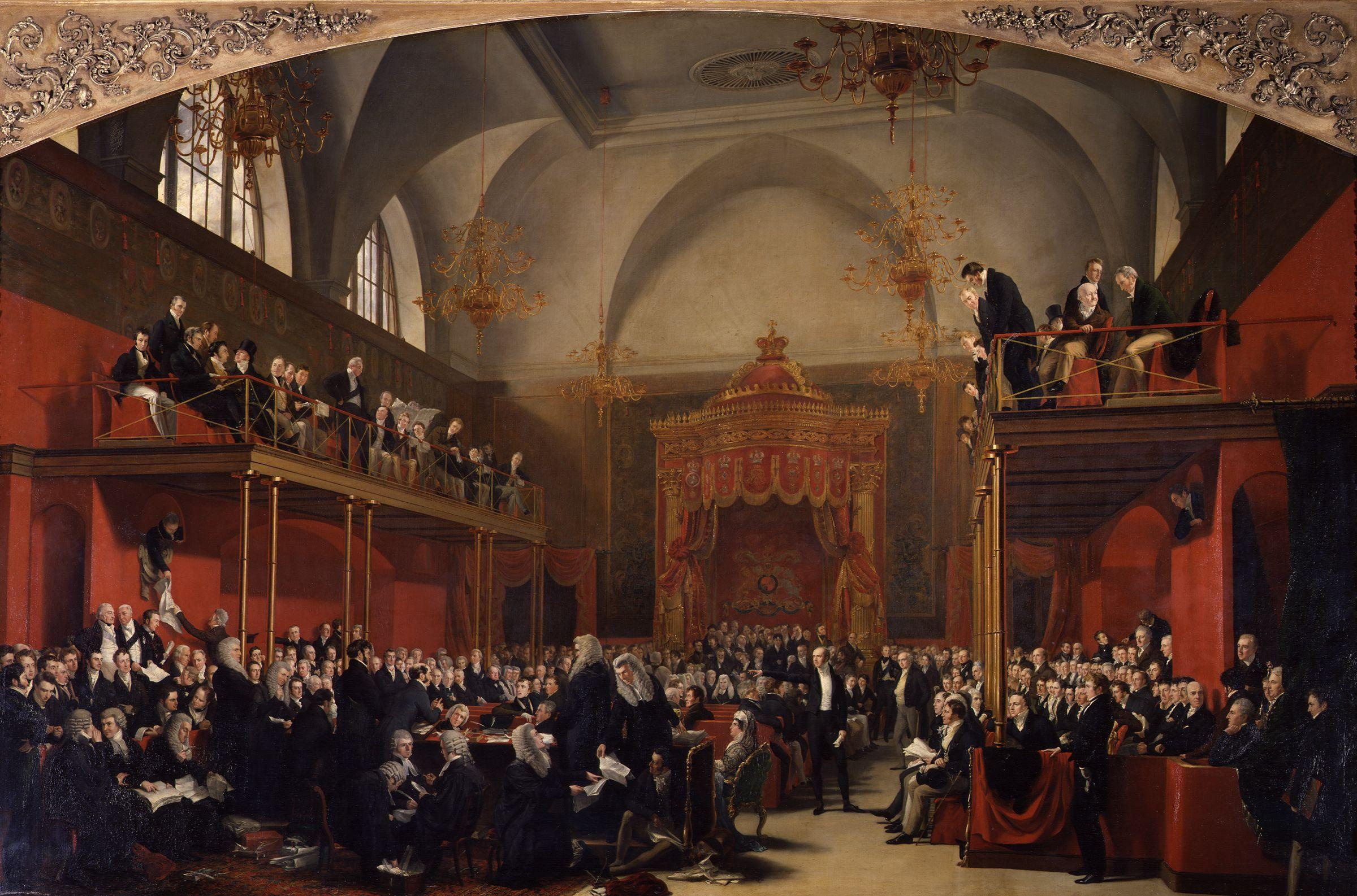 The Trial of Queen Caroline 1820, by Sir George Hayter (died 1871), given to the National Portrait Gallery, London in 1912. All images in this batch have been confirmed as author died before 1939 according to the official death date listed by the NPG.